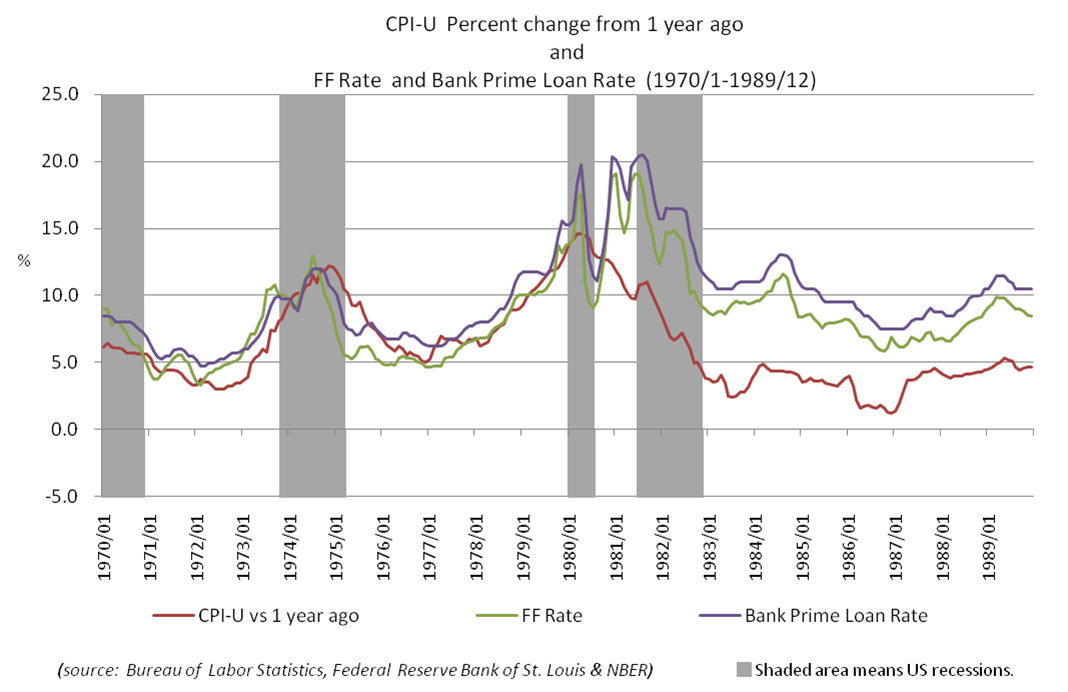 4 data are merged; Merged data are as follows CPI-U vs 1 year ago: Consumer Price Index (all urban consumers, all items) from BLS FF Rate and Bank Loan Prime Rate: Monthly data from FED of St. Loius Business Cycle Expansions and Contracutions: data from NBER